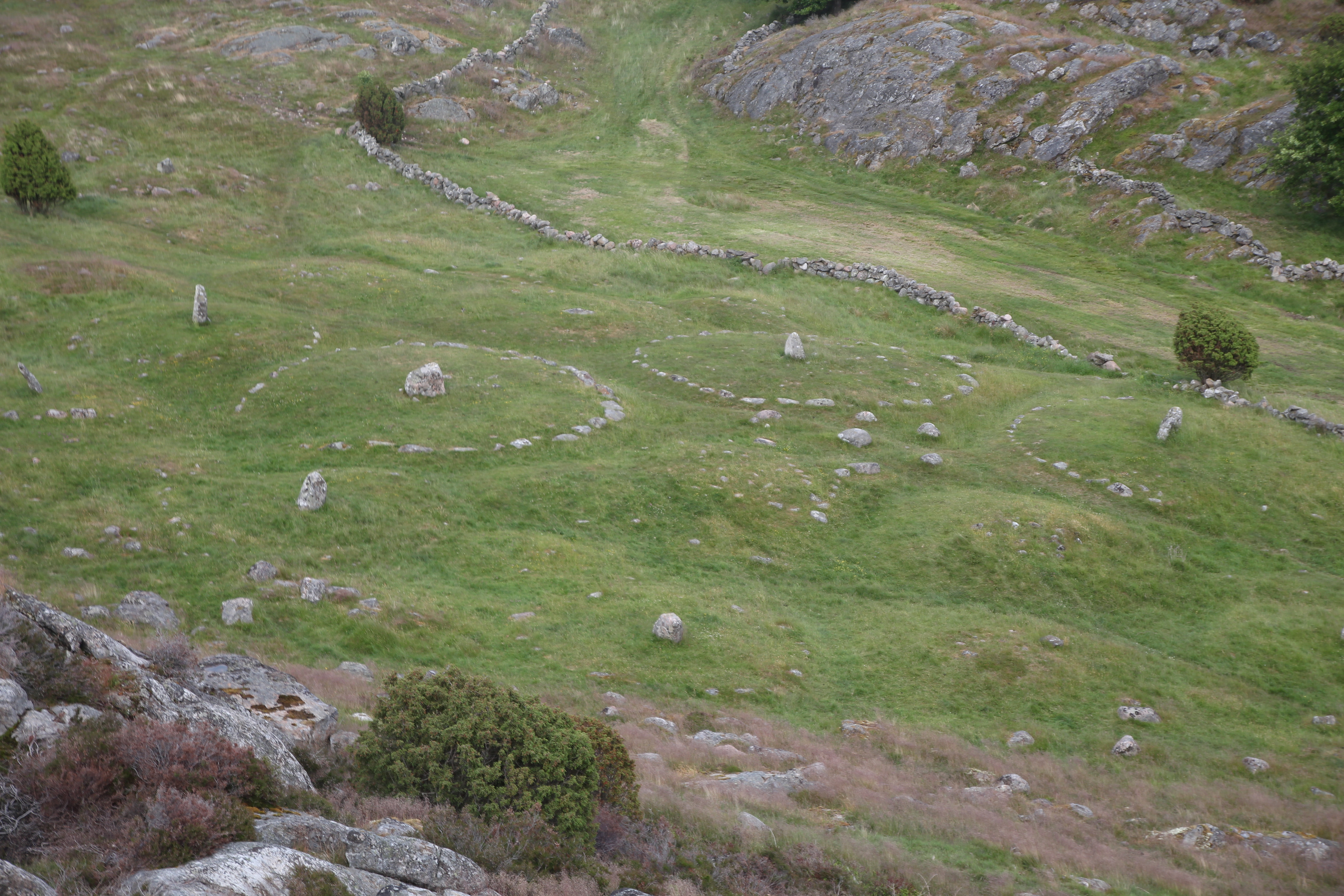 View of the stone age grave fields in Pilane, Tjörn, Sweden